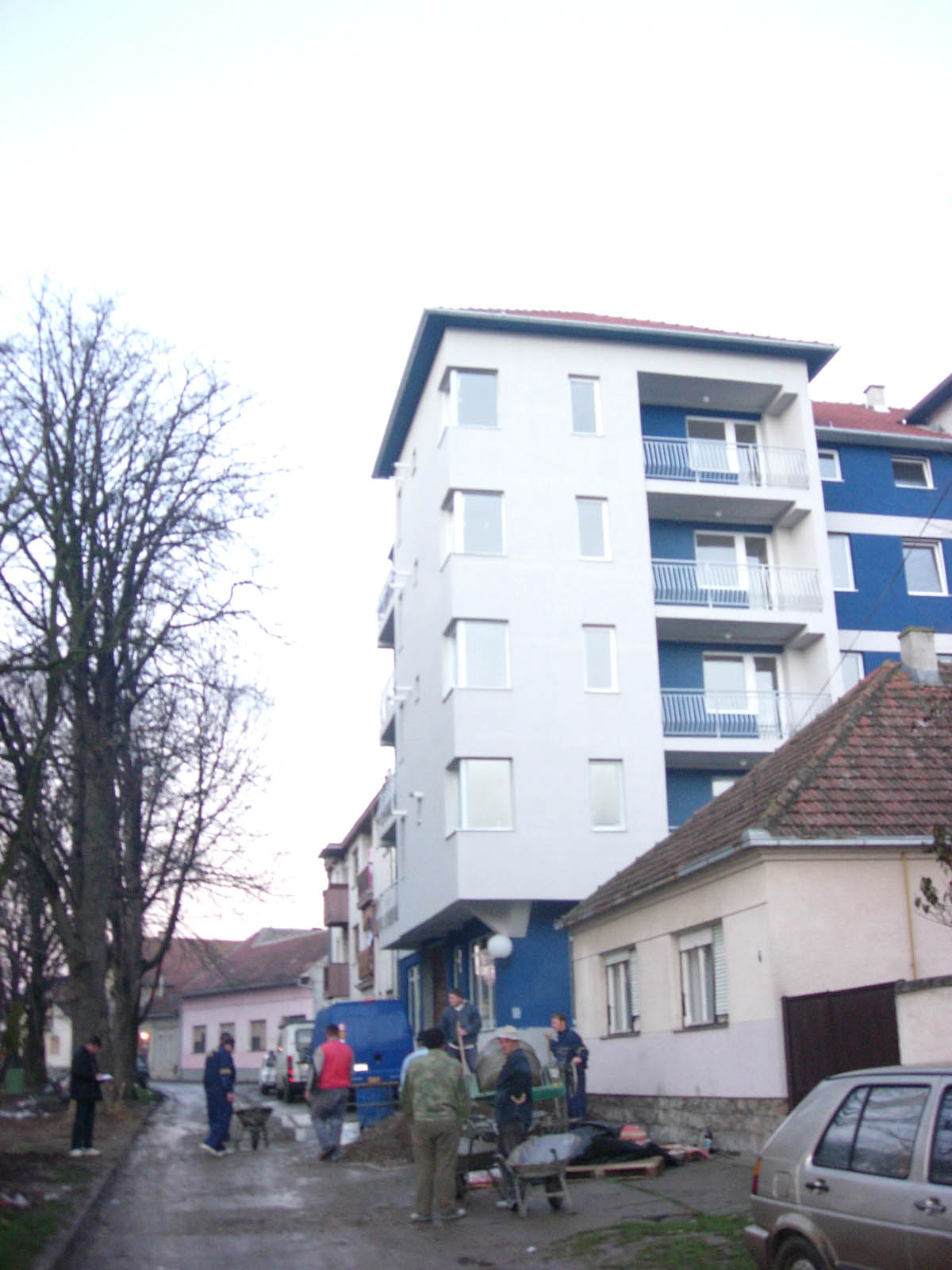 Building in Beška. The razed Evangelical church stood here until the end of the 1940s.